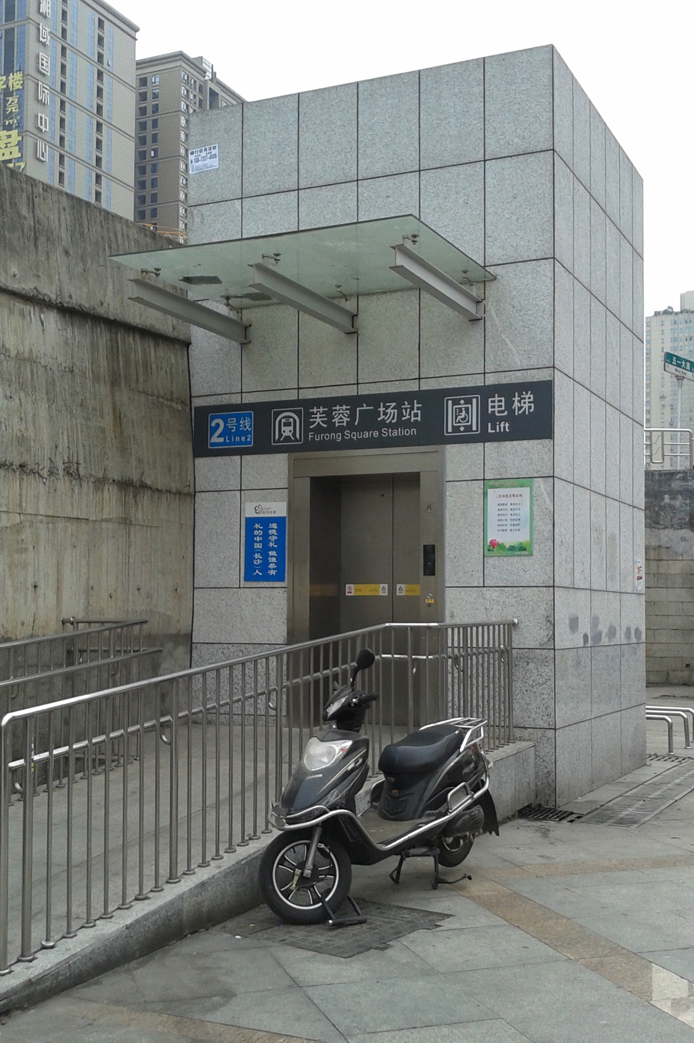 Elevator of Furong Square Station, Changsha Metro